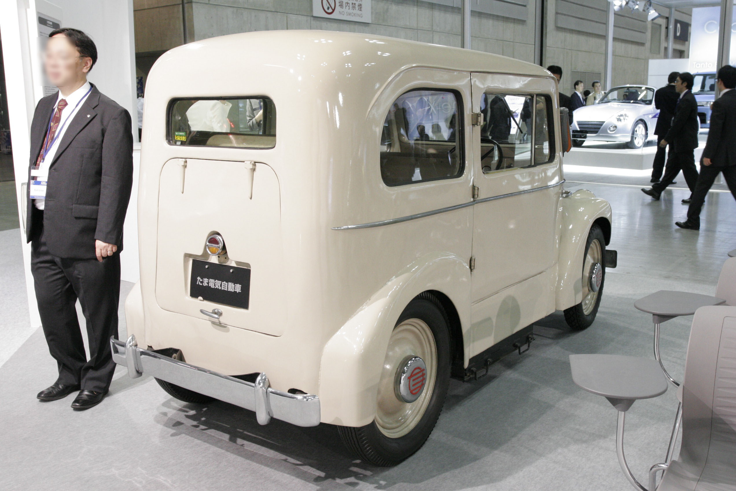 "Tama Denki Jidosha" Japanise old electrical car.built by Tokyo-Denki-Jidosha in 1947